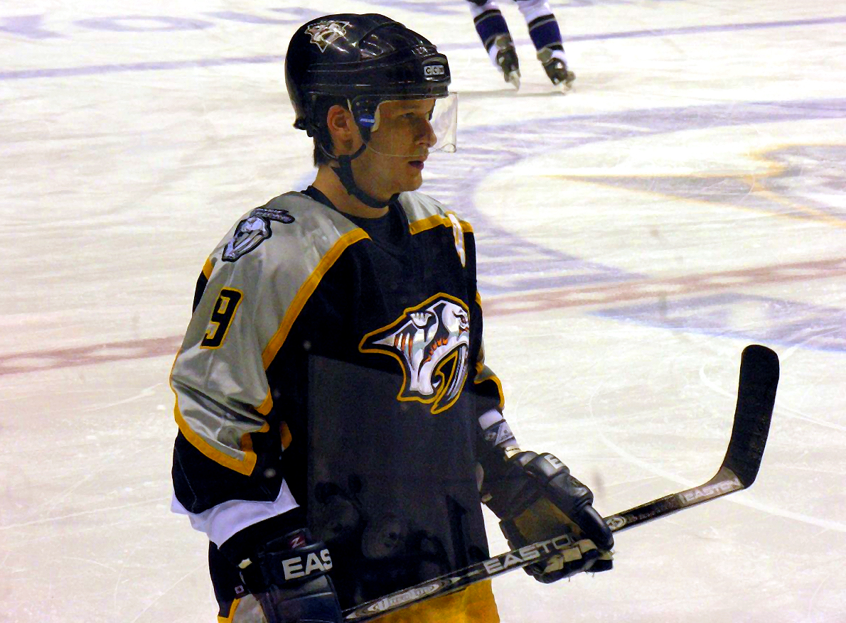 Paul Kariya, ice hockey player of the Nashville Predators